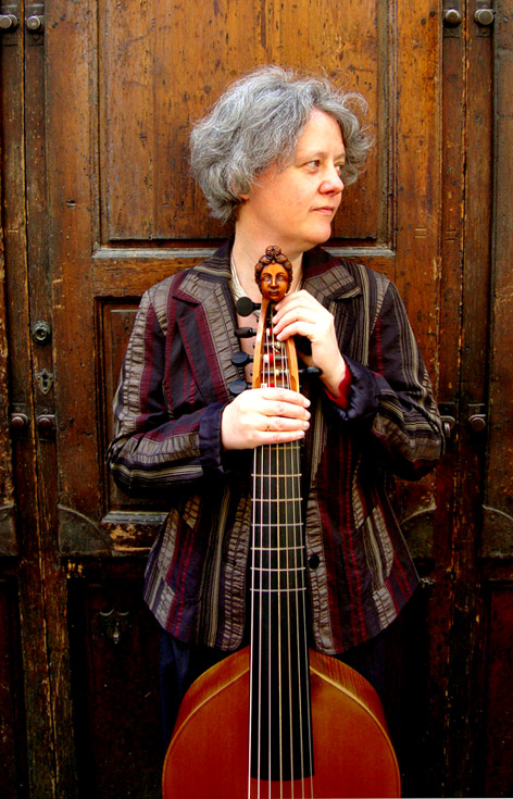 Bettina Hoffmann, violist